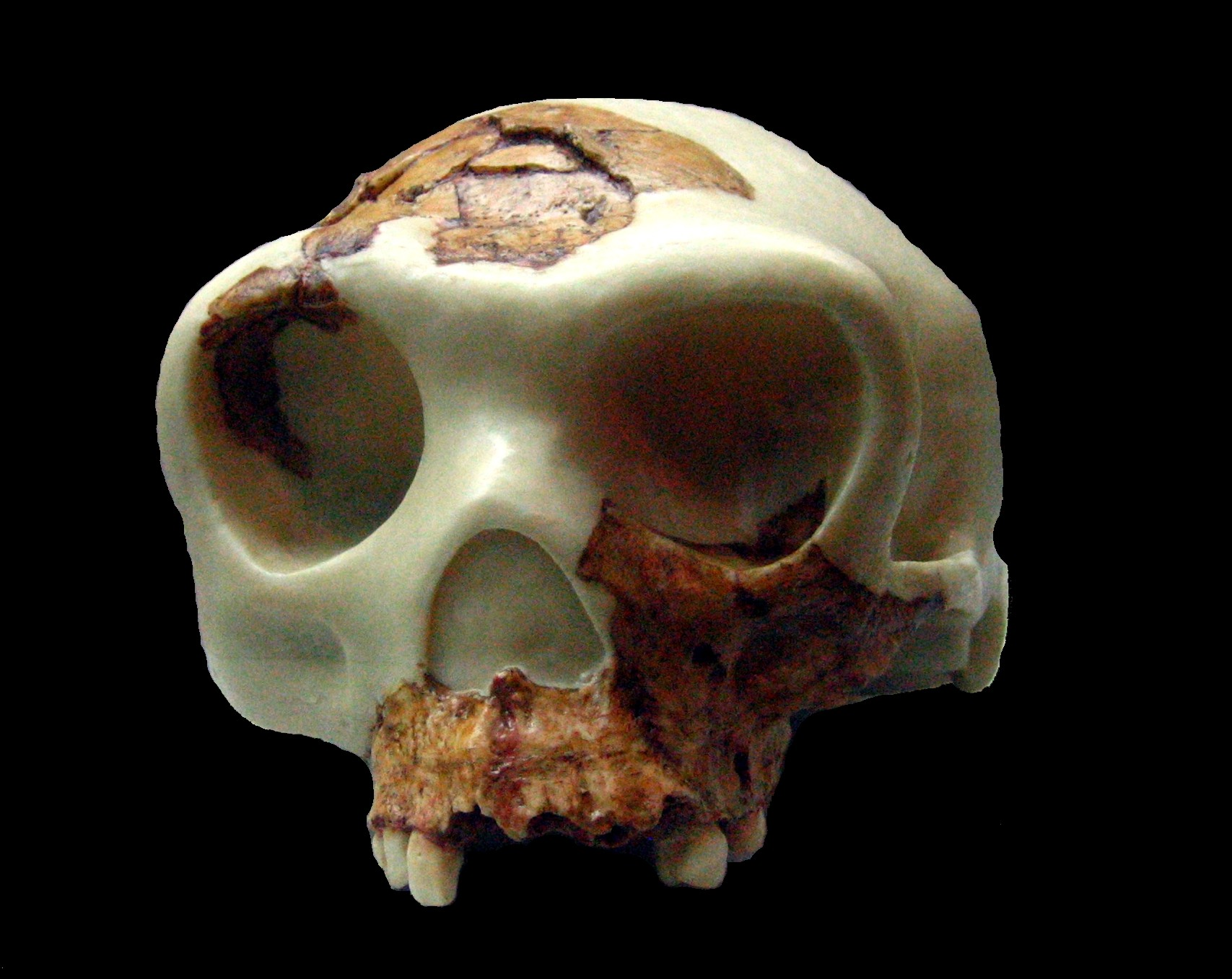 Reconstruction of Homo antecessor skull at Museu d'Arqueologia de Catalunya (Barcelona, Spain) Reconstrucción del cráneo de Homo antecessor, Museo de Arqueología de Cataluña (Barcelona, España)